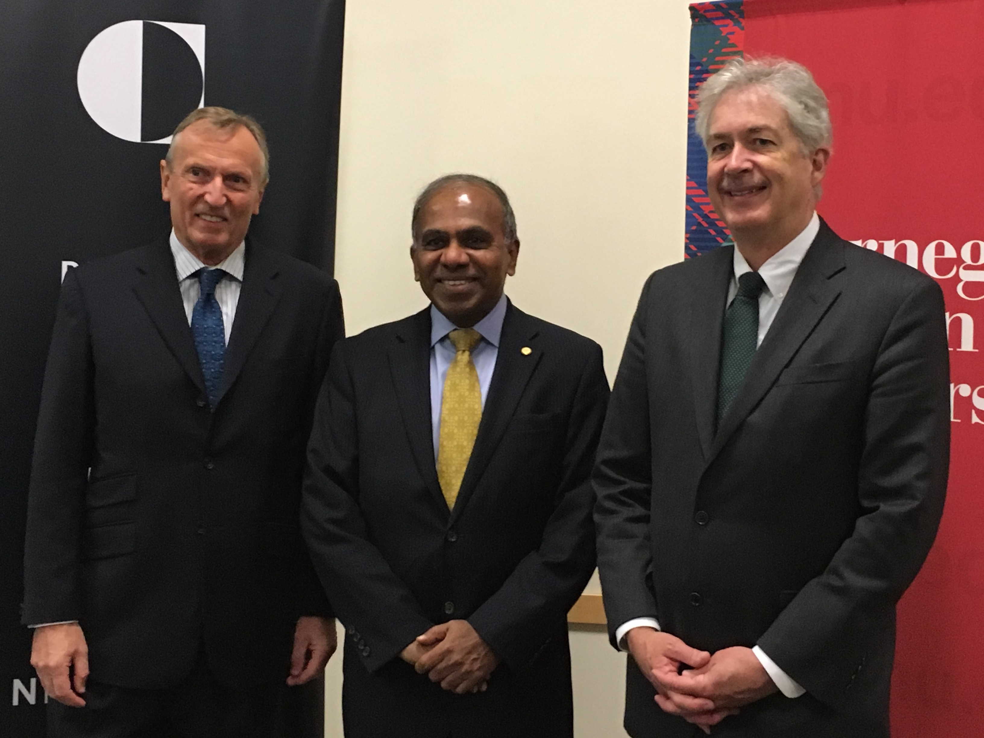 Malcolm Johnson, SubraSuresh and William J.Burns at Carnegie Mellon University, Pittsburgh, USA, 2016